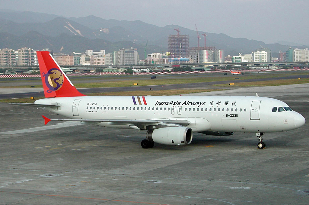 I've had some good views out of my various office windows, but the view from my office in Taipei has to be my favourite. B-22311 A320-232 of TransAsia Airways at Taipei, Sung Shan on January 8, 2002.